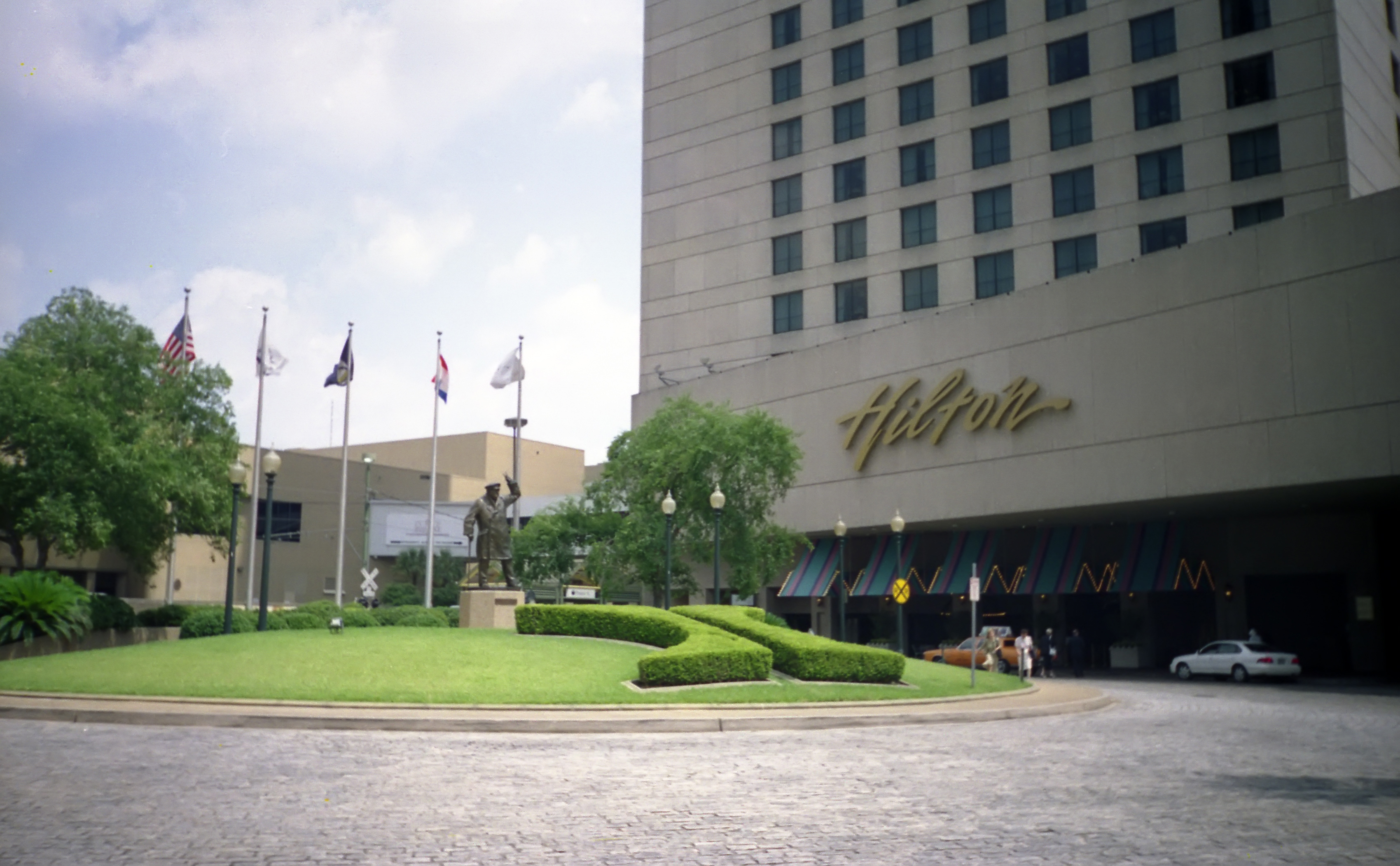 Monument photographed in 1998 at British Plaza Circle, New Orleans (USA)